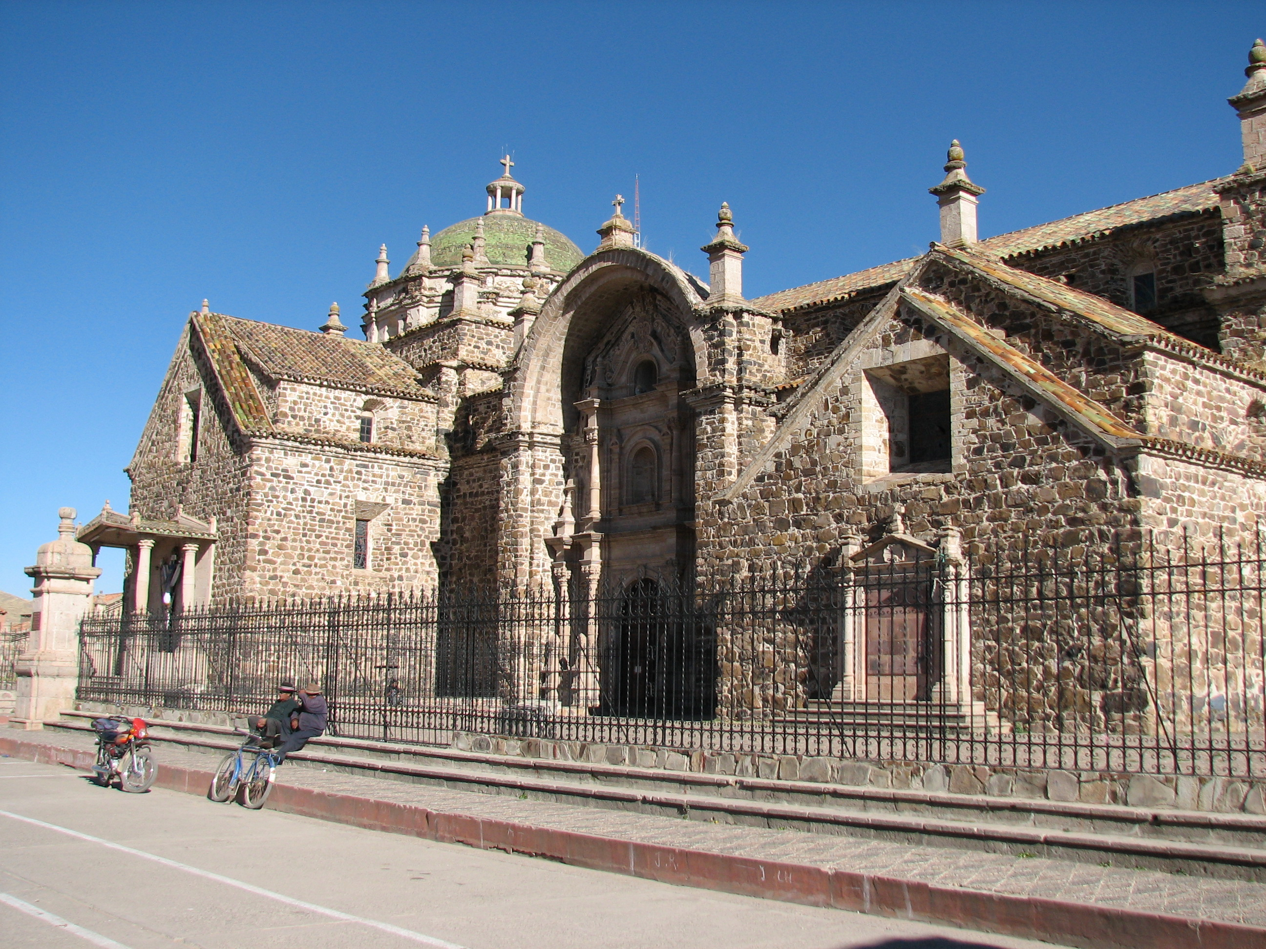 Santiago Apostol Church in Lampa, Peru.